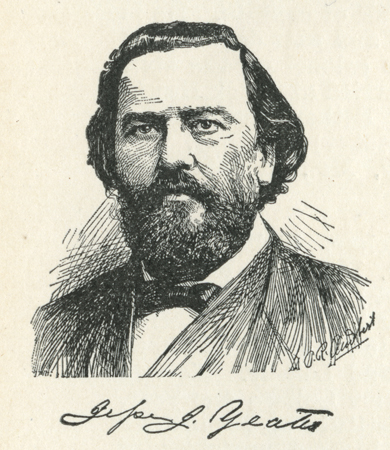 Engraving of Jesse Johnson Yeates, from The National Cyclopaedia of America Biography, Vol. 13, published 1906